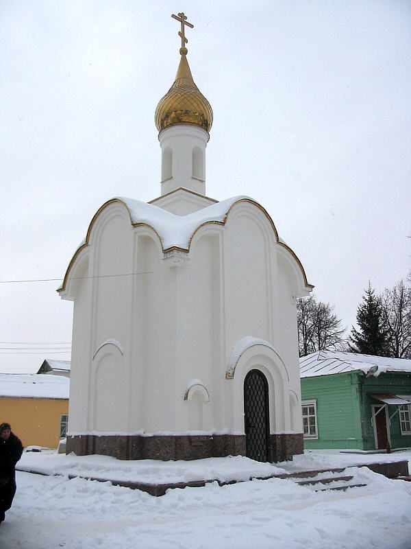 Chapel monument at the assumed prison of female boyar Boyarynja Morozova and princess Urusova in Borovsk, Russia. Before 2002 there was a wooden cross: See Image:Morozovagave.jpg